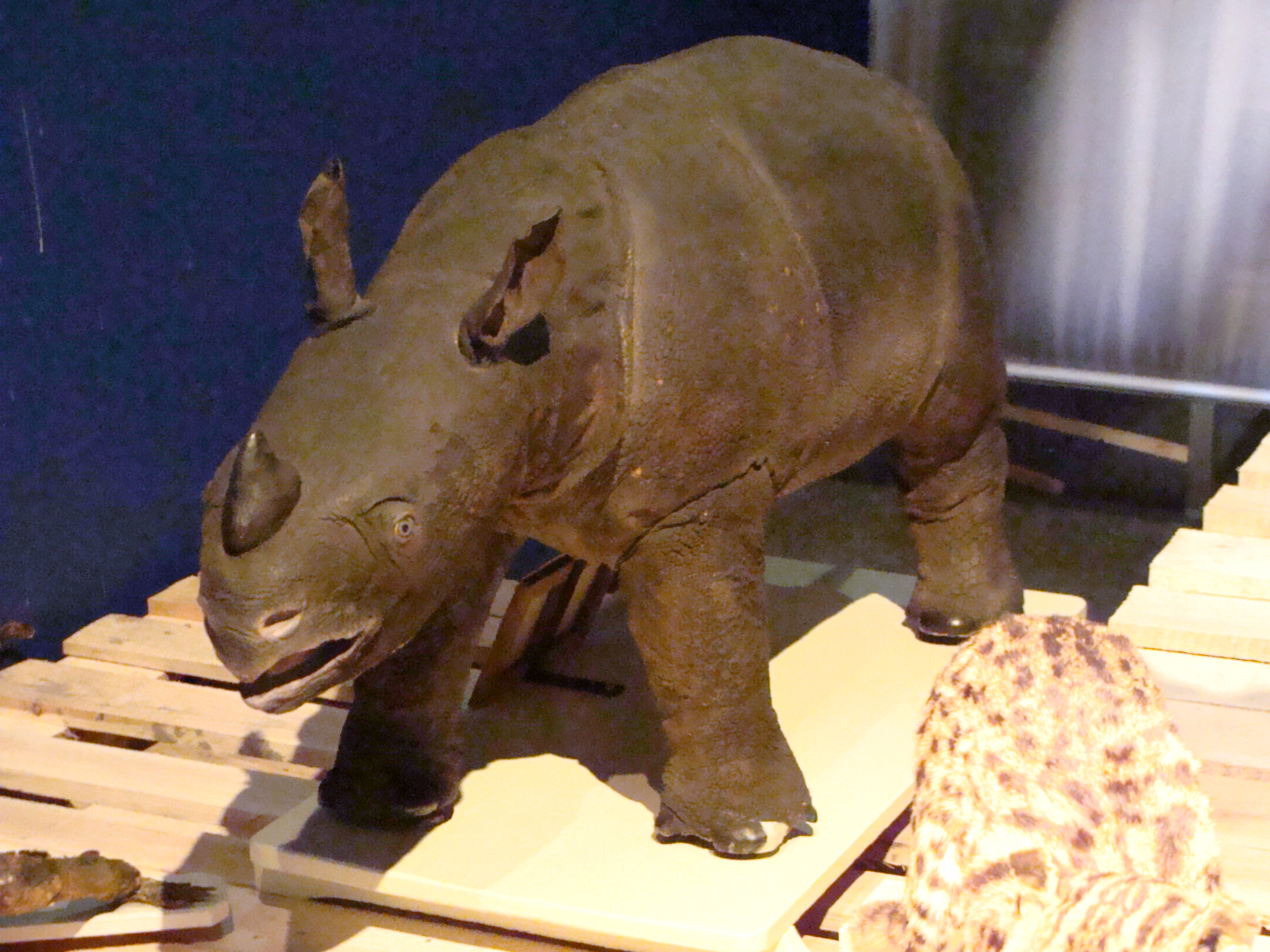 A museum specimen of a juvenile Javan Rhinoceros. It was on display during the exhibition 'Dubois' in the National Museum of Natural History 'Naturalis' in Leiden, the Netherlands. The Javan Rhinoceros (Sunda Rhinoceros to be more precise) or Lesser One-horned Rhinoceros (Rhinoceros sondaicus) is a member of the family Rhinocerotidae and one of five extant rhinoceroses.